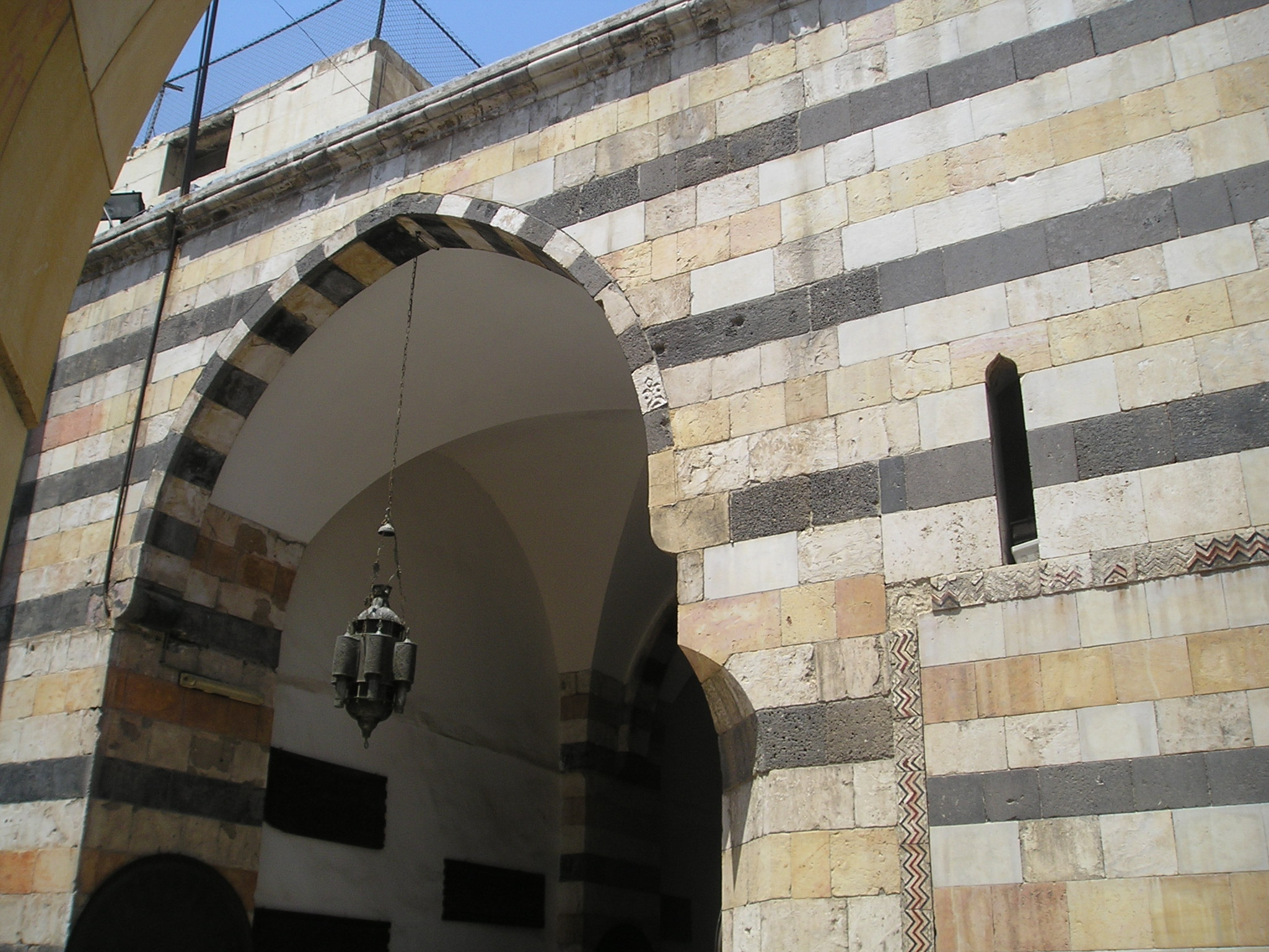 Damascus, Syria - Azem Palace, a detail of a portal